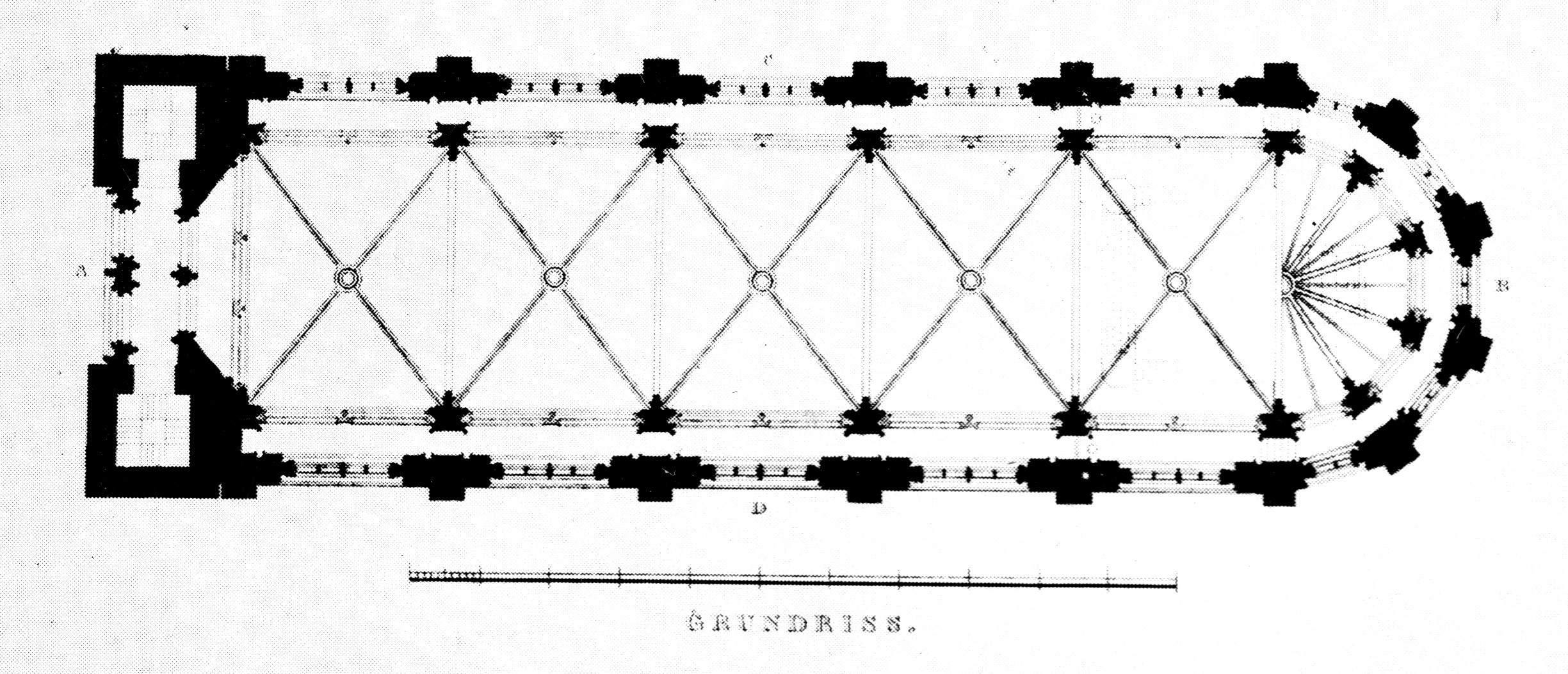 Friedrichwerdersche Curch, Berlin, ground plam by Schinkel